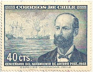 A stamp of Chile, 1948. Arturo Prat 100th Anniversary of his birth.